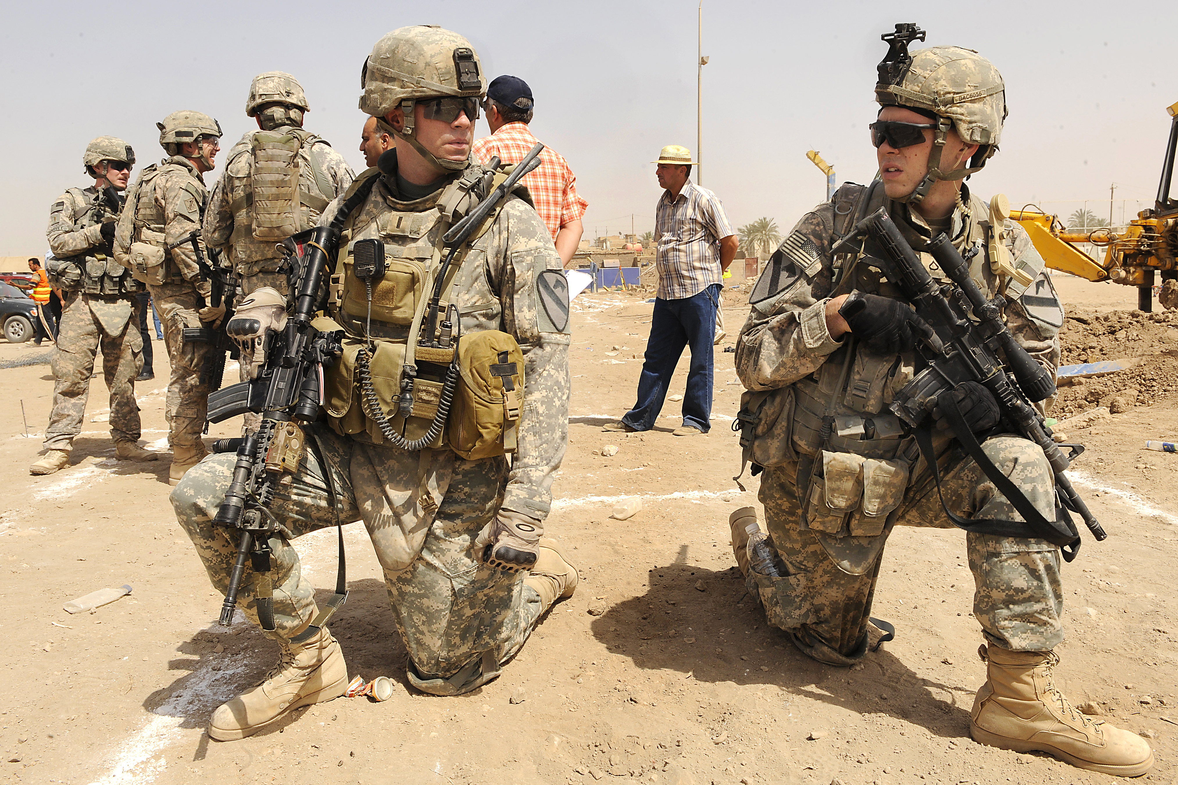 U.S. Army 1st Lt. Joshua Vandegriff, left, and Pfc. Joshua Cahoon have a conversation while attending a groundbreaking ceremony for Freedom Field, which is being built near Joint Security Station Ur in Baghdad, Iraq, June 23, 2009. Vandegriff and Cahoon are assigned to the 1st Cavalry Division's 2nd Battalion, 5th Cavalry Regiment, 1st Brigade Combat Team. U.S. Army photo by SPC. Joshua E. Powell See more at